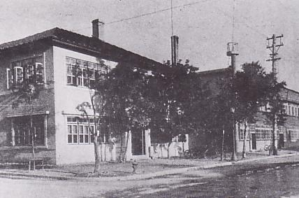 Karafuto Nichinichi Newspapers Company